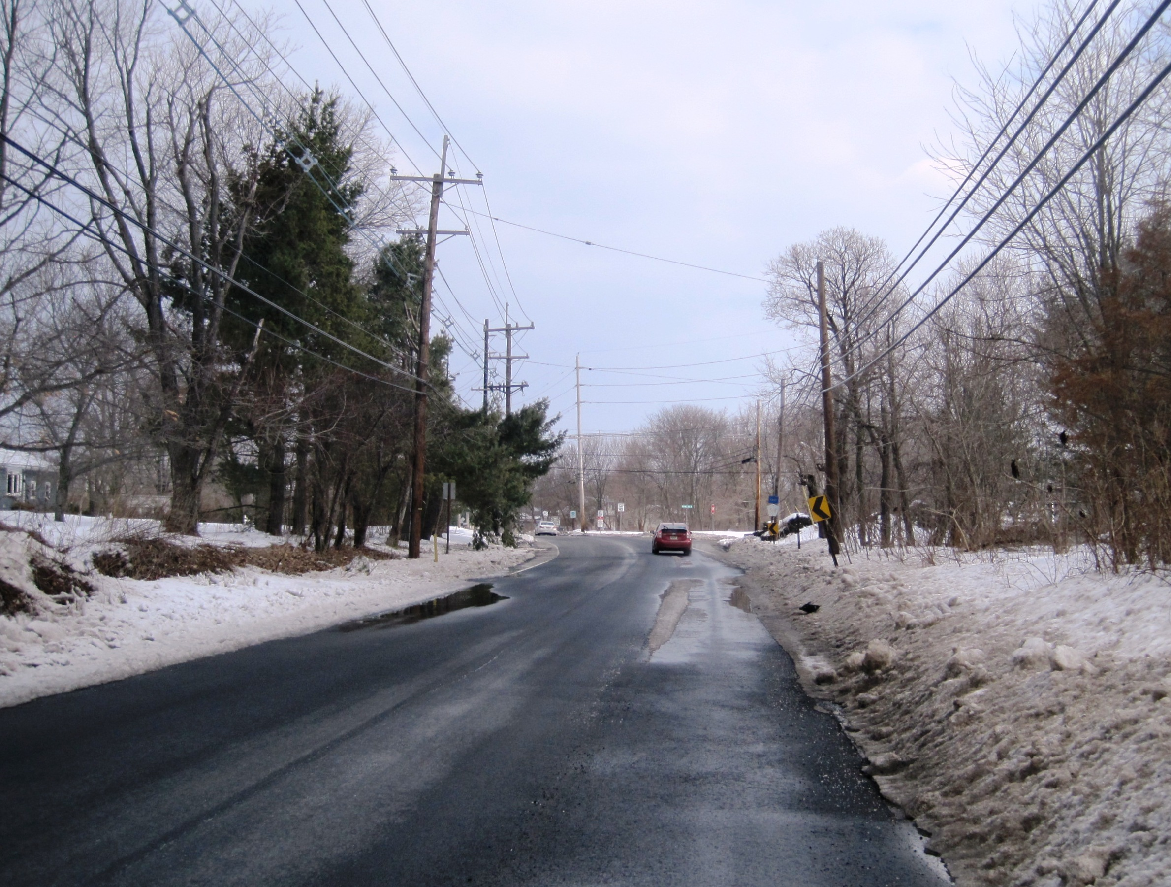 Photo of Stoutsburg, New Jersey, an unincorporated community within portions of Hopewell Township and Montgomery Township. Photo taken on eastbound County Route 518 approaching Province Line Road.